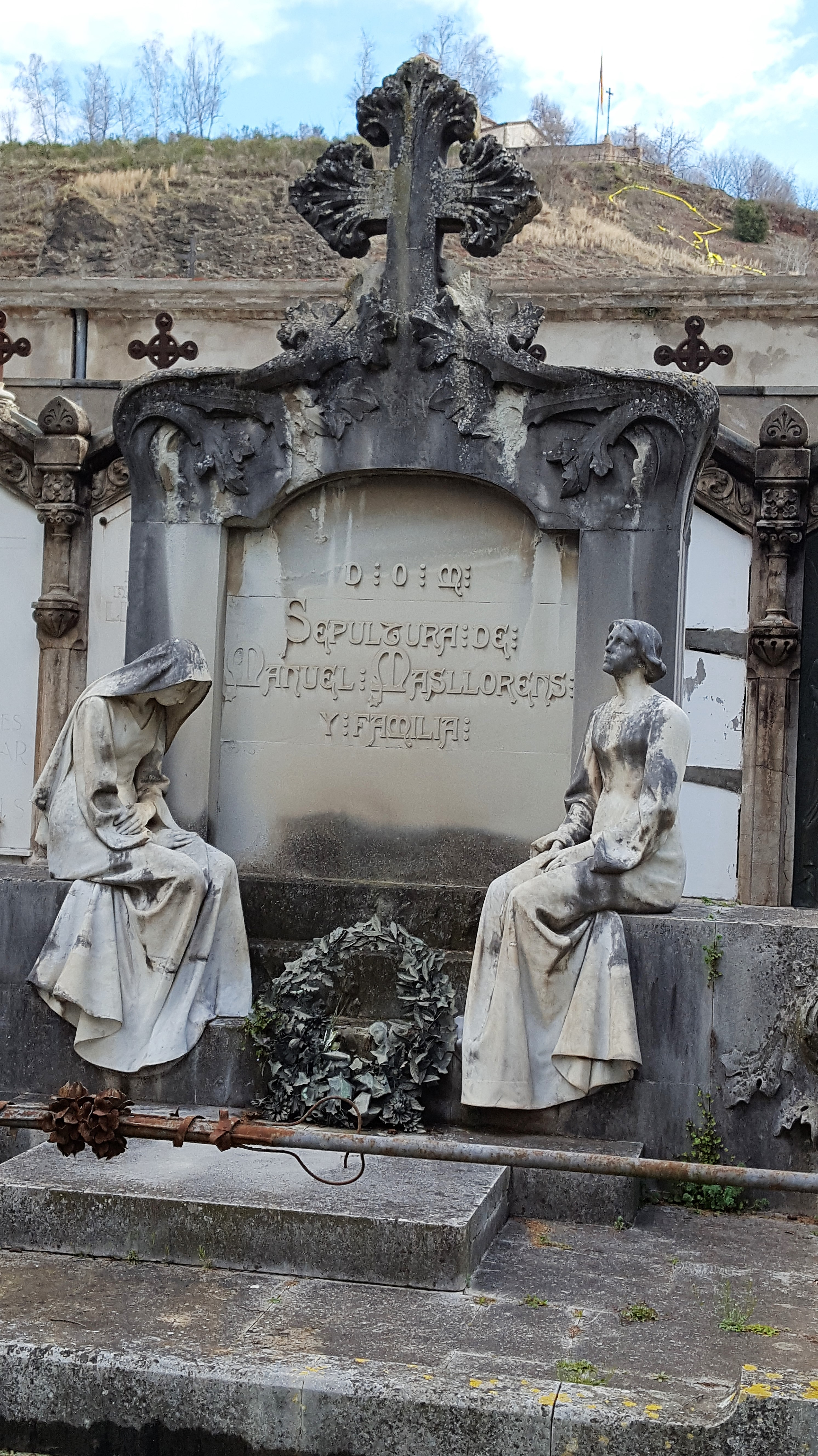 Celestí Devesa: Modernistic tomb of the familiy Masllorens at cimetery from Olot Catalonia